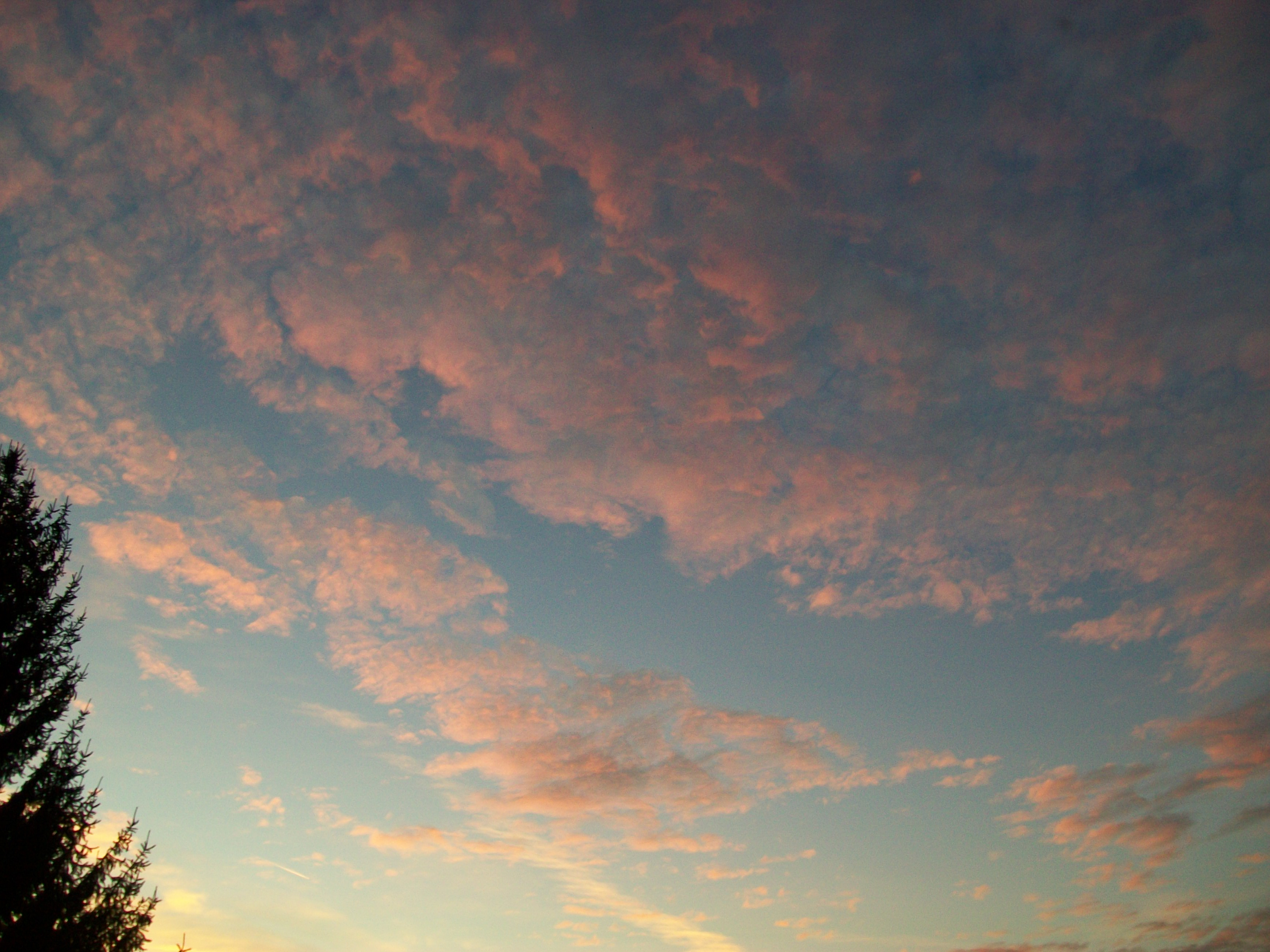 Redsunset over Graz at 20h